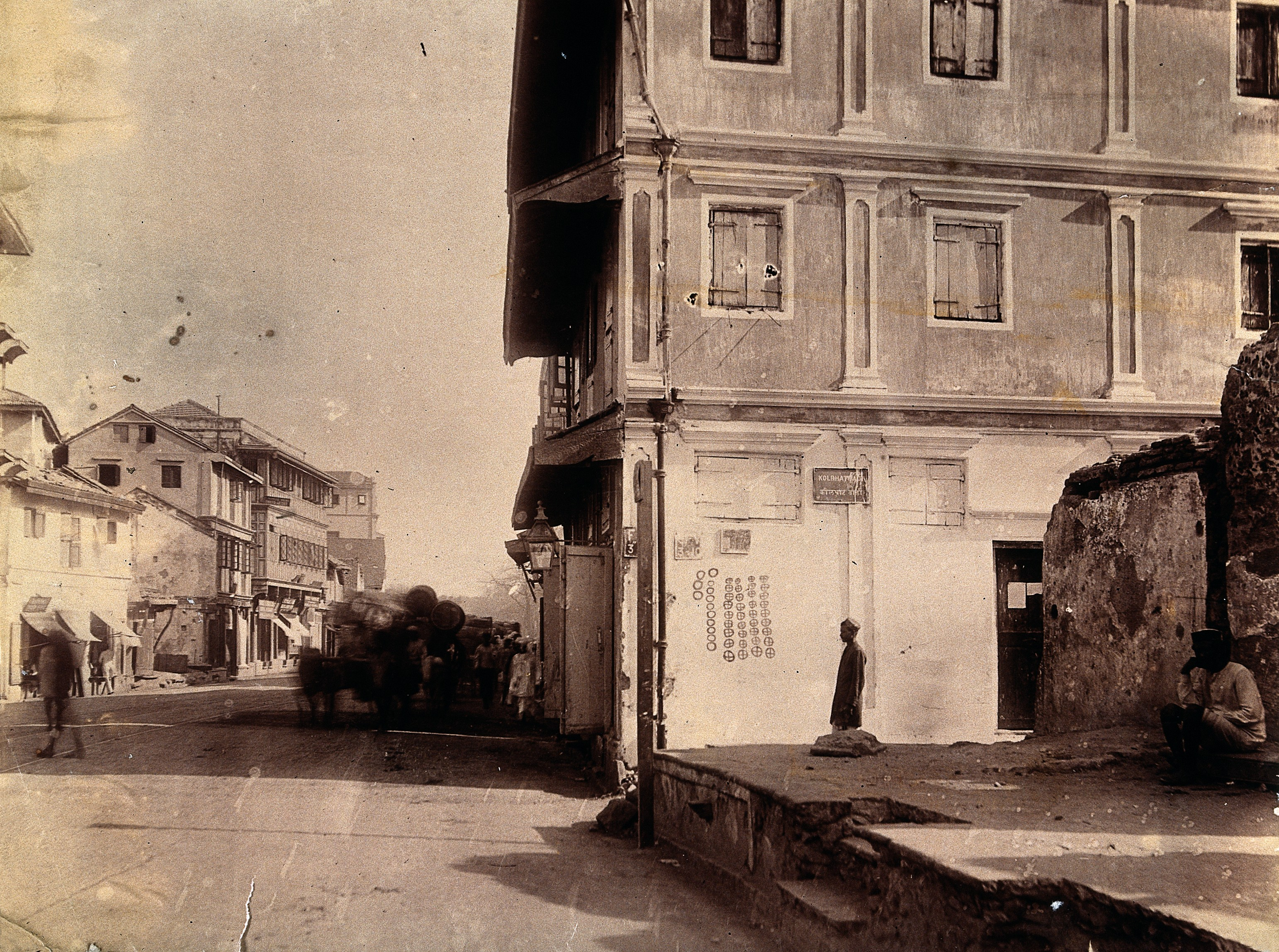 A plague house in Kaladevi Road, Bombay. The plain circles on the wall represent death from plague. The circles with a cross within them denote death reported as from other maladies. Iconographic Collections